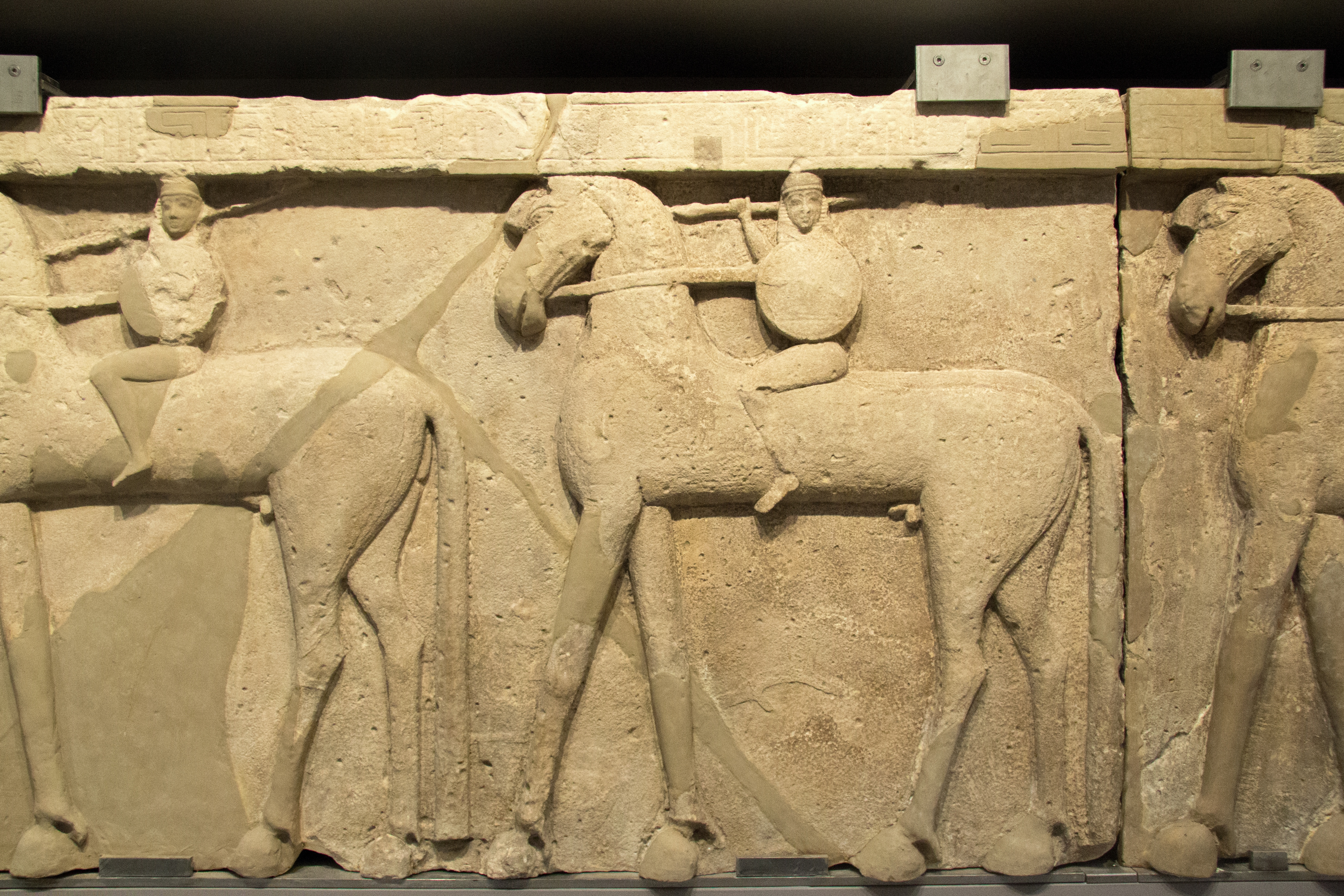 Frieze with horsemen from Temple A at Prinias, sculptures of the Daedalic period, 650-600 BC. Archaeological Museum of Herakleion, AMH Gamma 232.